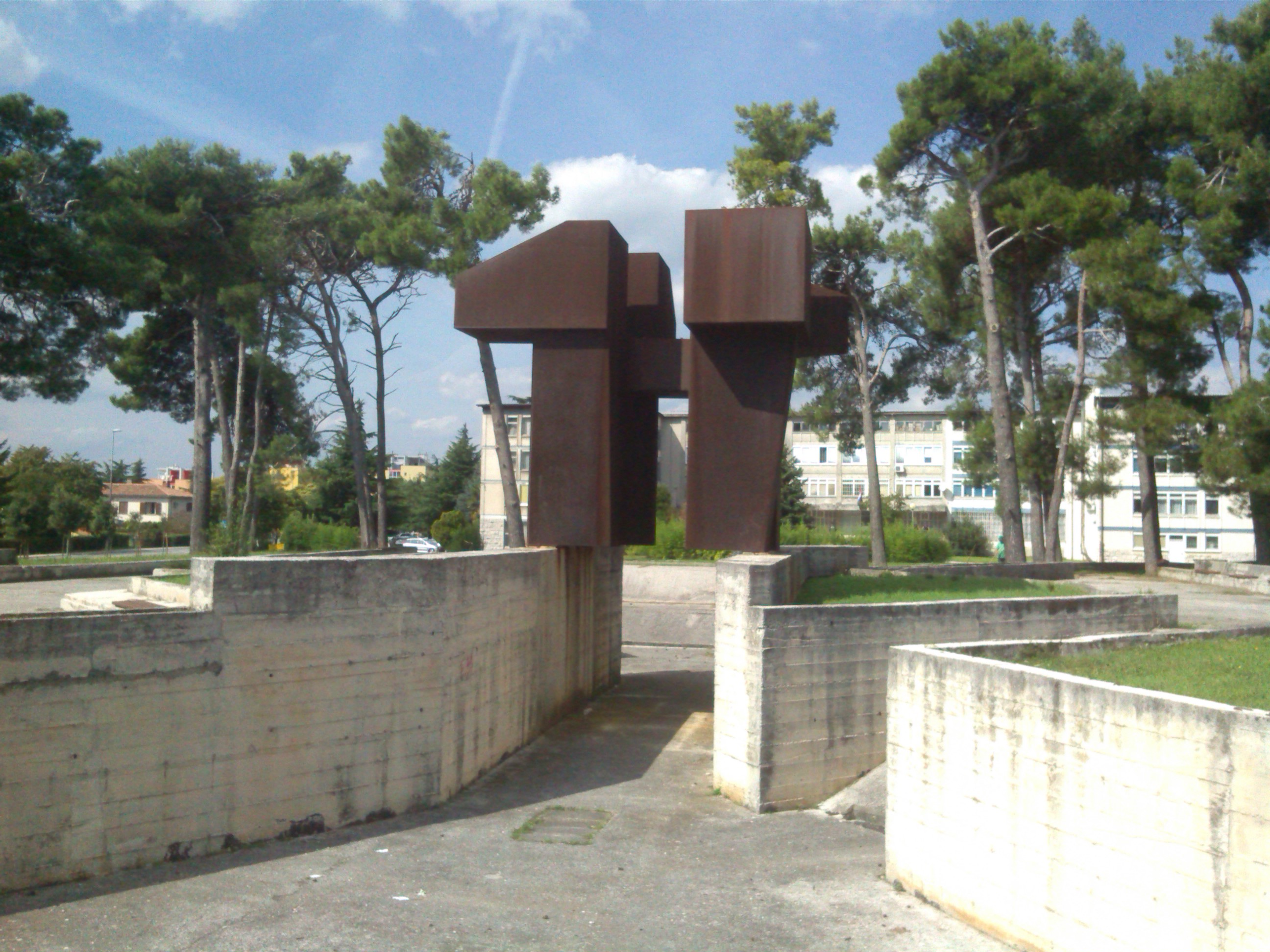 Monument in Labin